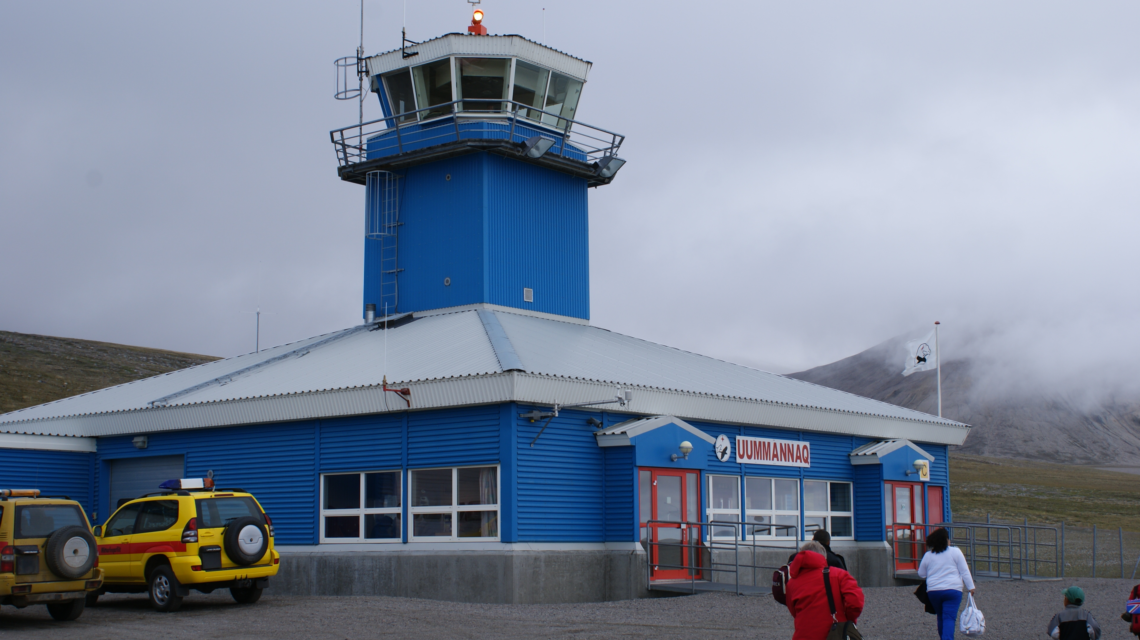 Qaarsut Airport, Greenland. Never mind the label on the building; it's for package tourists...